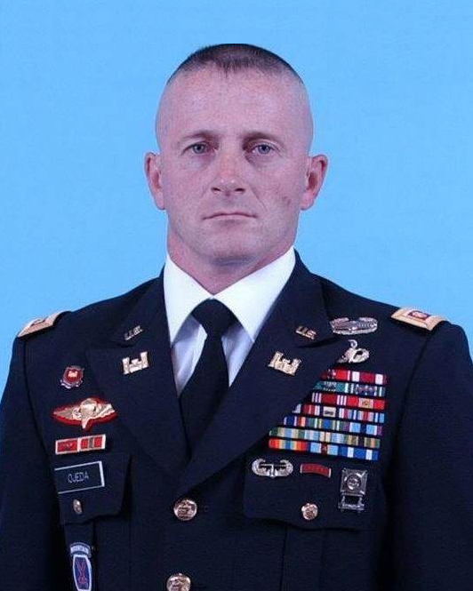 Army photo of MAJ Richard Ojeda